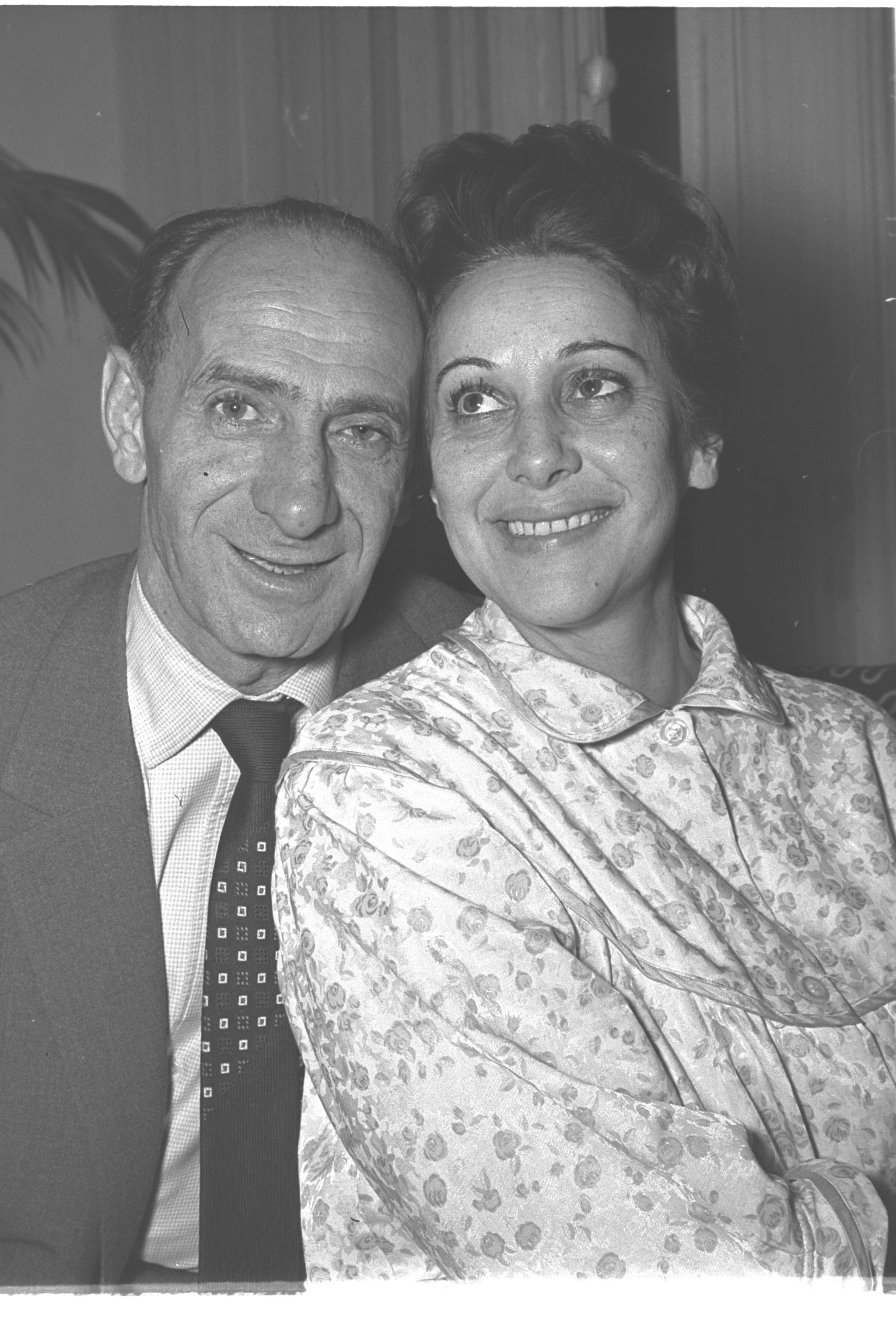 The Yiddish actor and entertainer Shimon Dzigan and his wife Eva